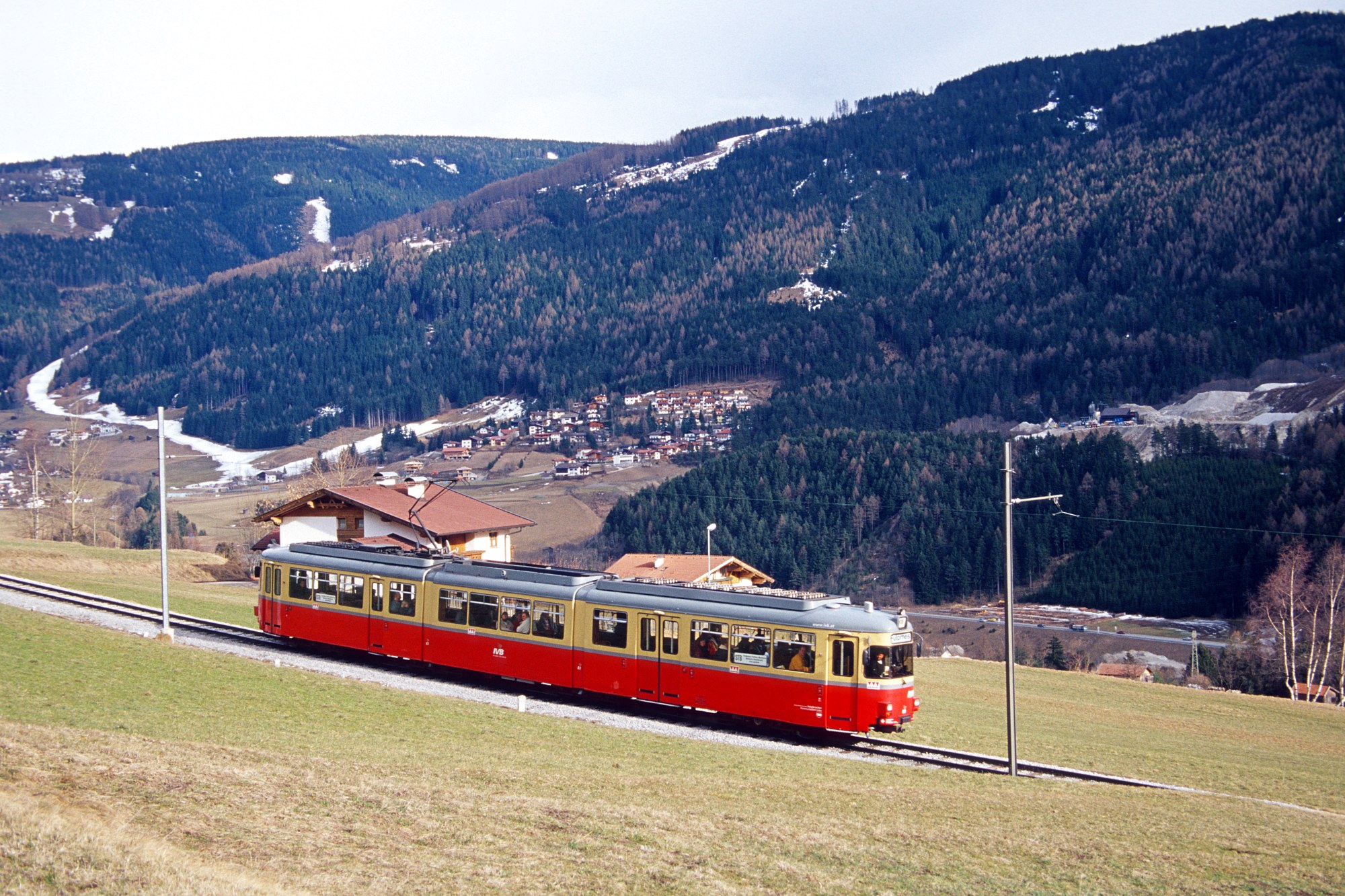 Stubaitalbahn railcar on the last section before reaching it's terminus Fulpmes. The vehicle is carrying it's classic IVB red and cream livery